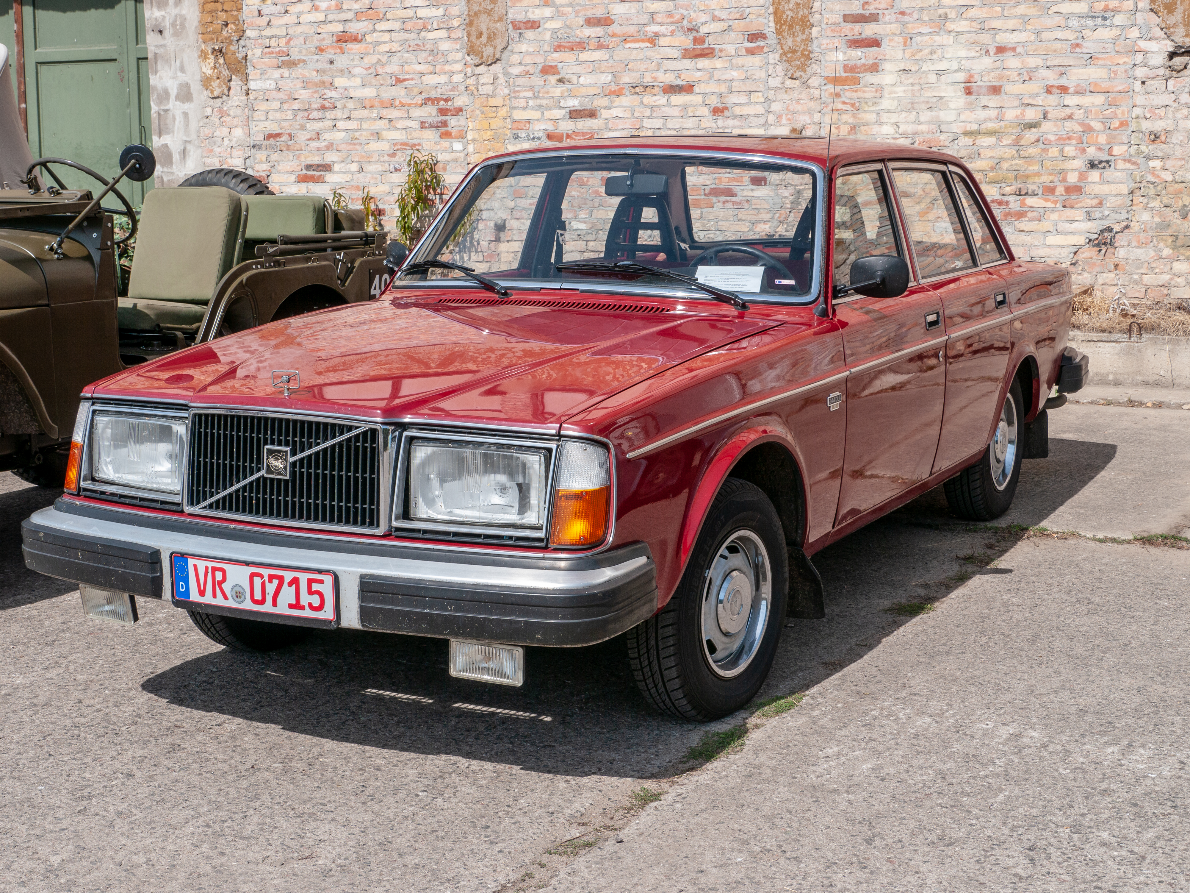 Volvo 244 DLS, 12. Internationales Maritimes-Fahrzeugtreffen